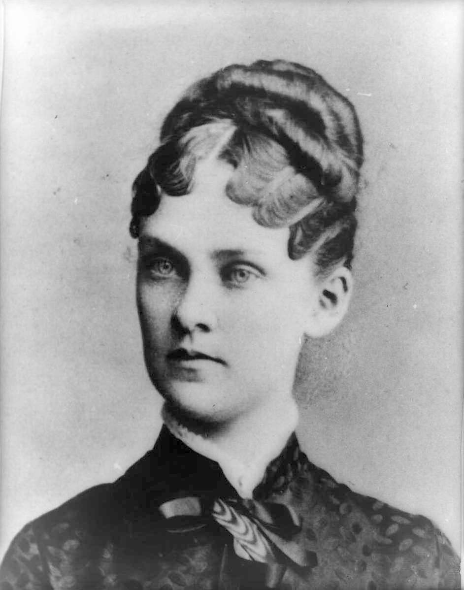 Alice Hathaway Lee Roosevelt, the first wife of Theodore Roosevelt from the US Library of Congress Prints and Photographs Division, Library of Congress. Reproduction #:LC-USZ62-25802